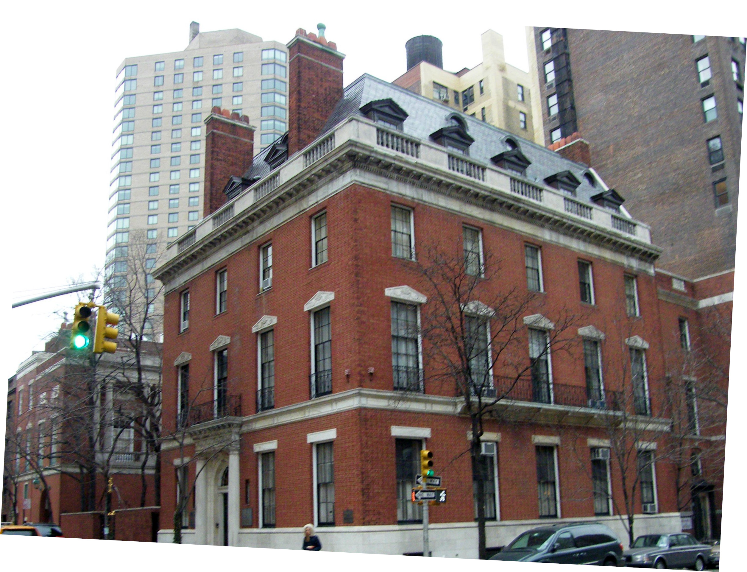 George F Baker residence 75 East 93rd on National Register of Historic Places in New York City. NYCLPC designation 1969; Guidebook map 16. ZIP 10128.